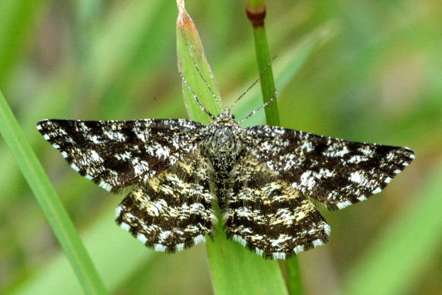 Picture taken in Commanster, Belgian High Ardennes . Species: Ematurga atomaria female